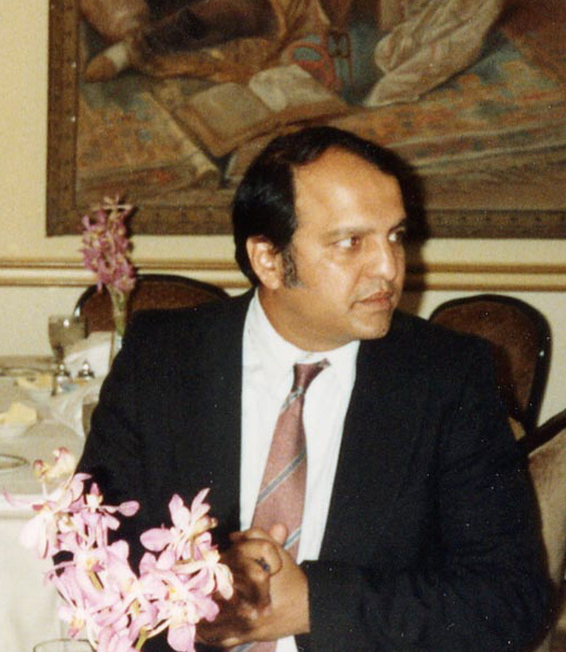 Mowahid Hussain Shah at a banquet in Washington, DC